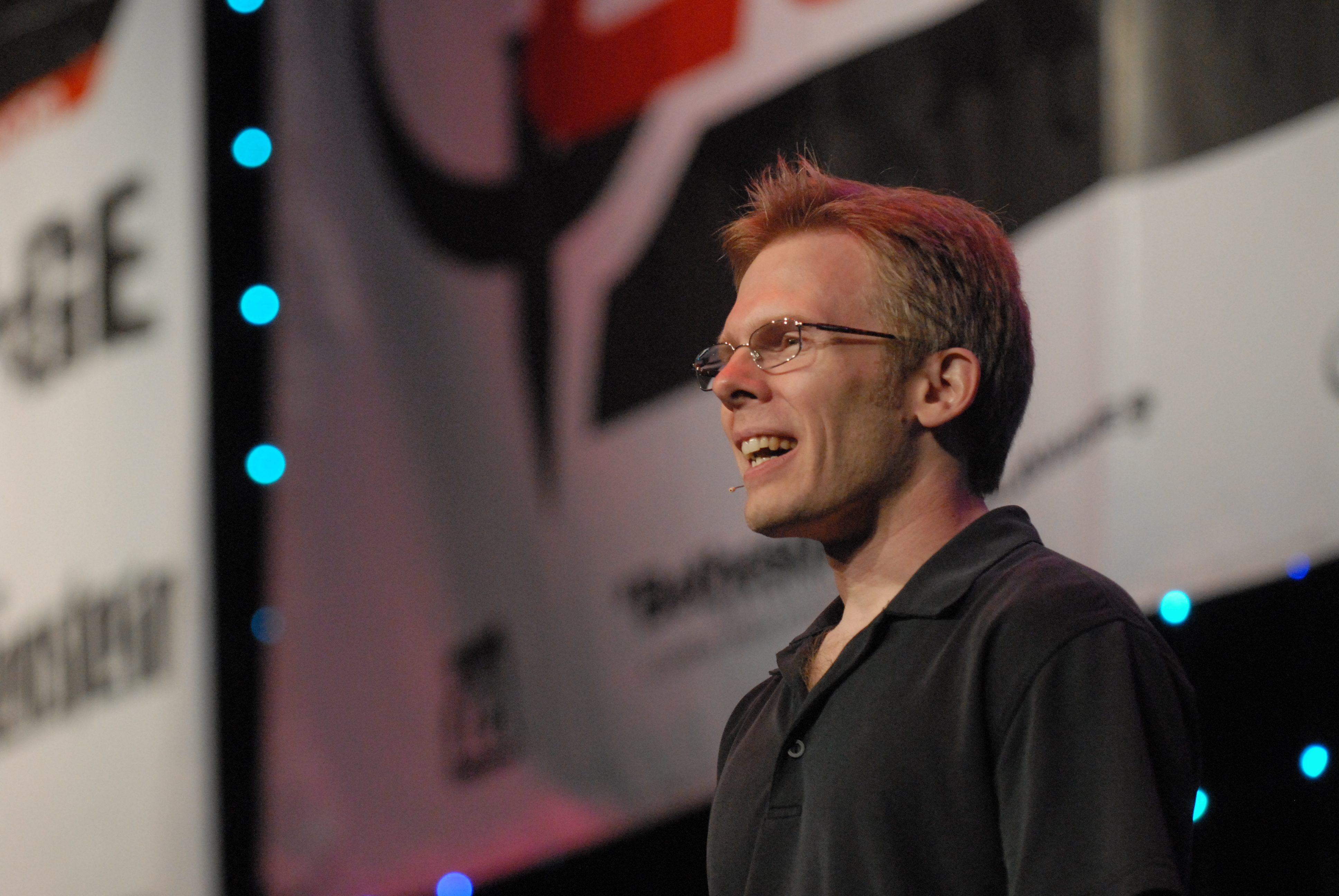 John Carmack at the QuakeCon convention in 2009.